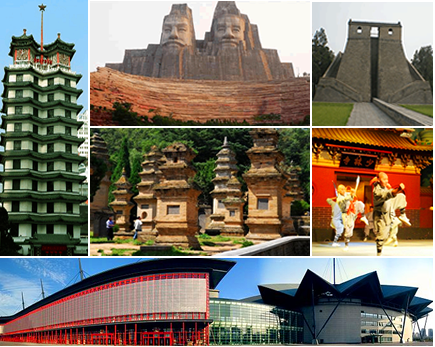 zhengzhou city